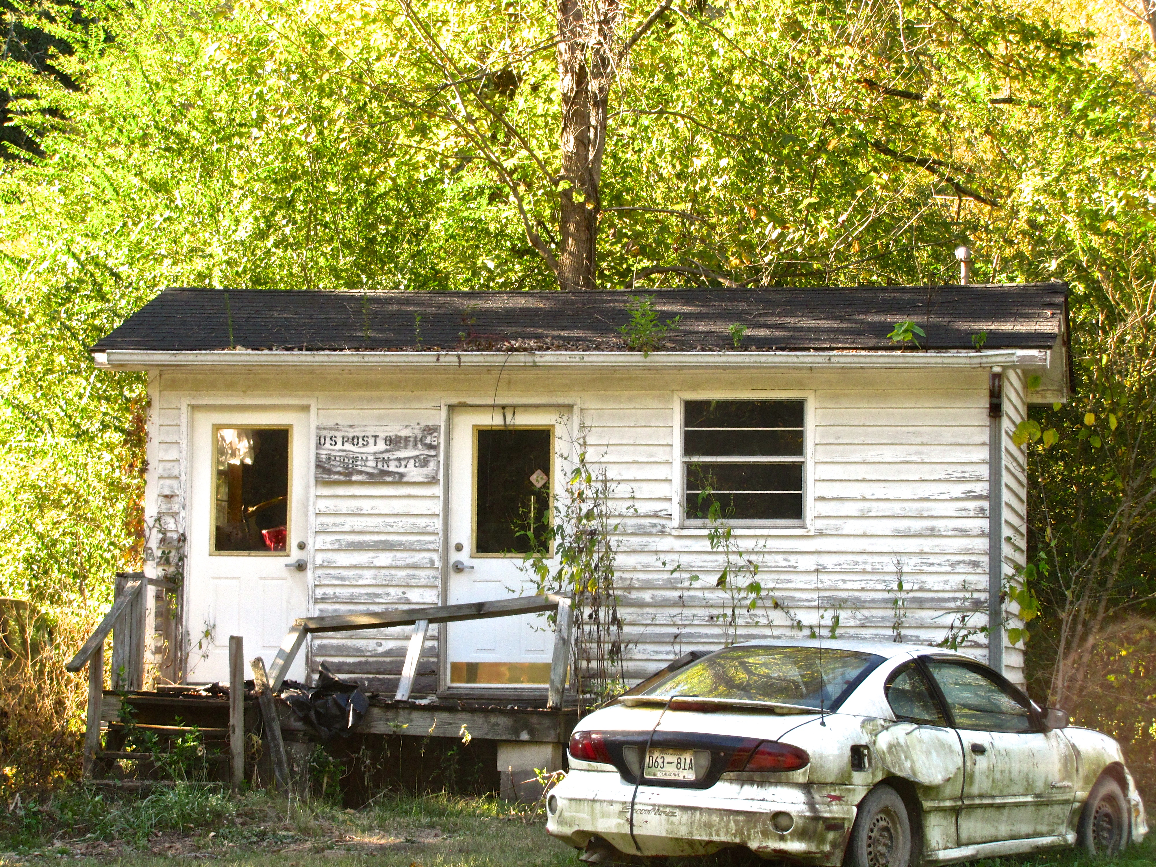 Former post office of Pruden in Claiborne County, Tennessee, United States.